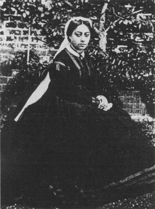 Photograph of Queen Emma of Hawaii in the America or England in 1865 taken by Henry L. Chase.